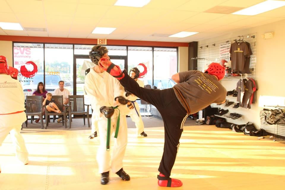 Classroom sparring